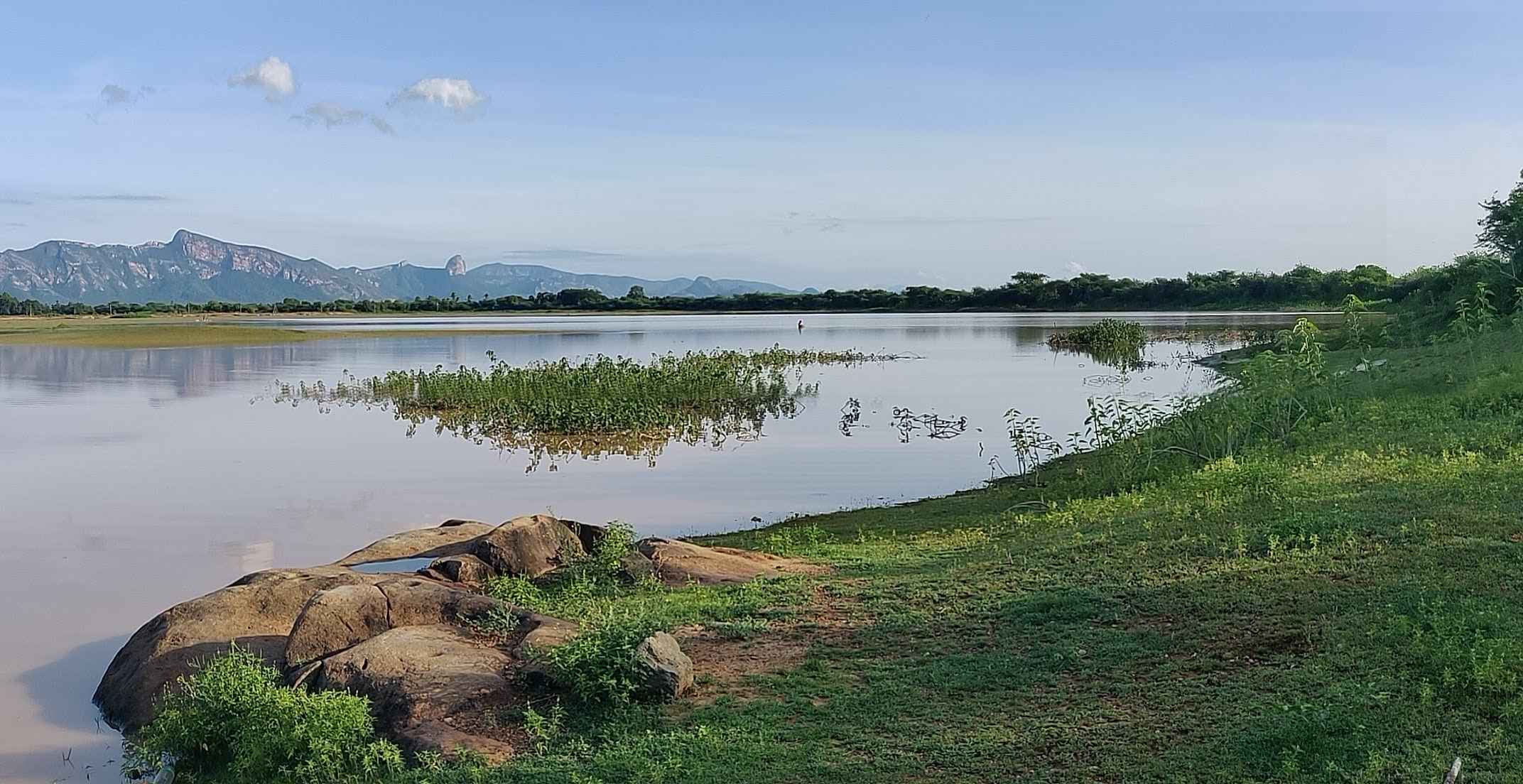 Picture of Pallam village tank, Yerpedu Mandal, Chittoor district, Andhra Pradesh, India.